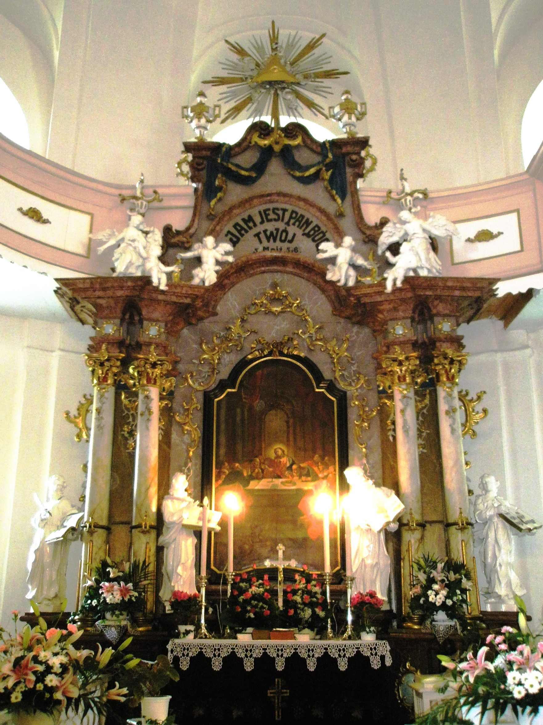 Altar in the Lutheran Church in Komorní Lhotka, Frýdek-Místek District, Czech Republic